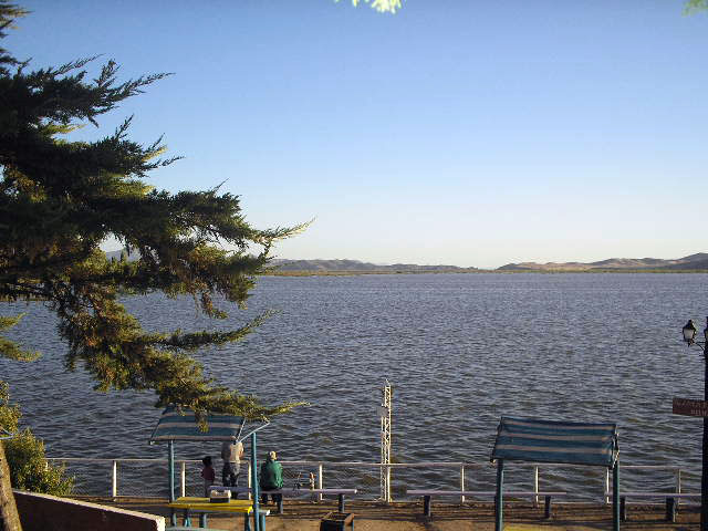 View of the south-east coast of the Lake Rapel